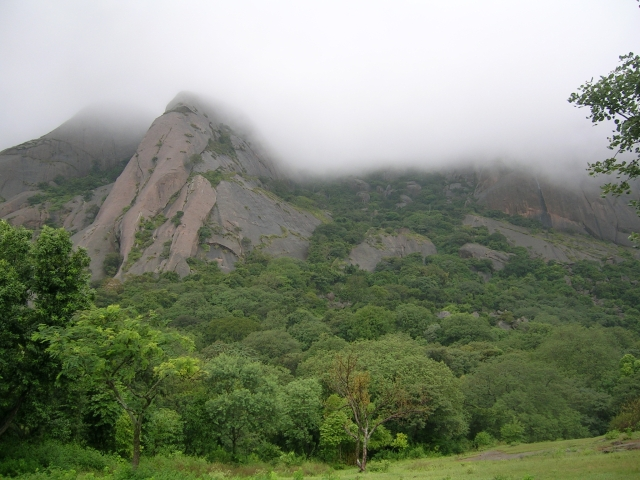 Savandurga hillside forest, Bangalore, India